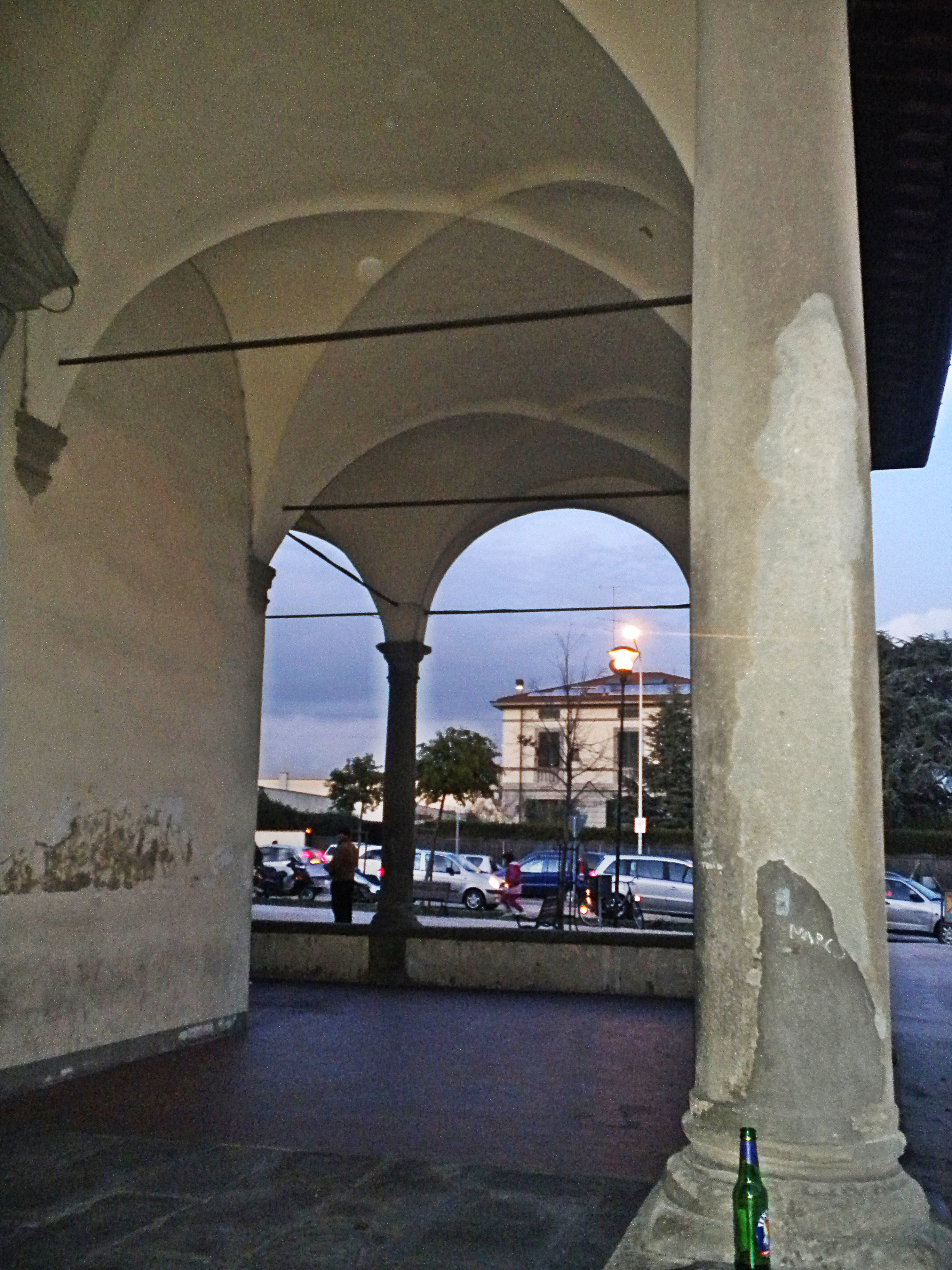 lodge